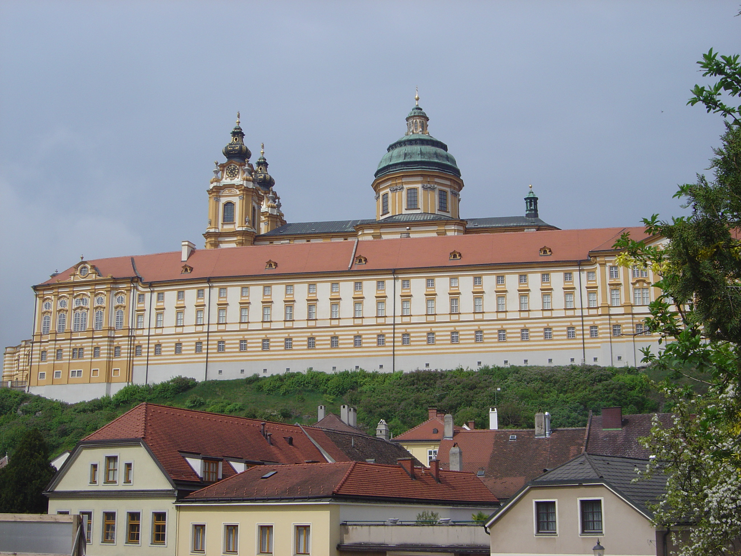 Benedictine abbey of Melk, Lower Austria: from below (Melk village)